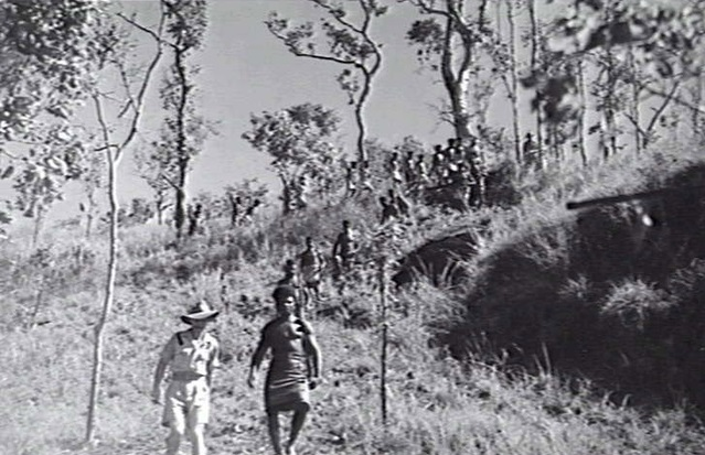 Papuan Infantry Battalion soldiers returning from an exercise around Bisiatabu, July 1943